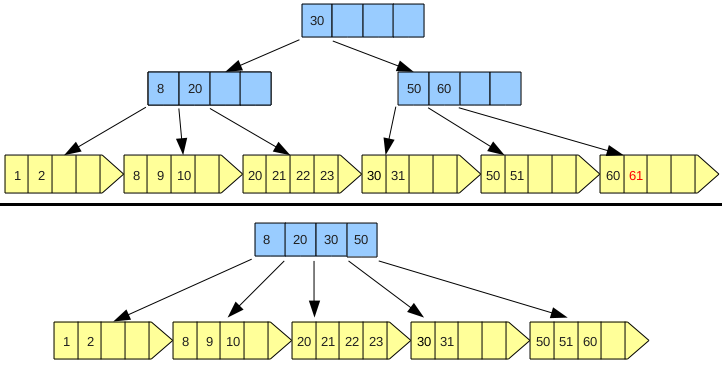 Remotion from B+ tree